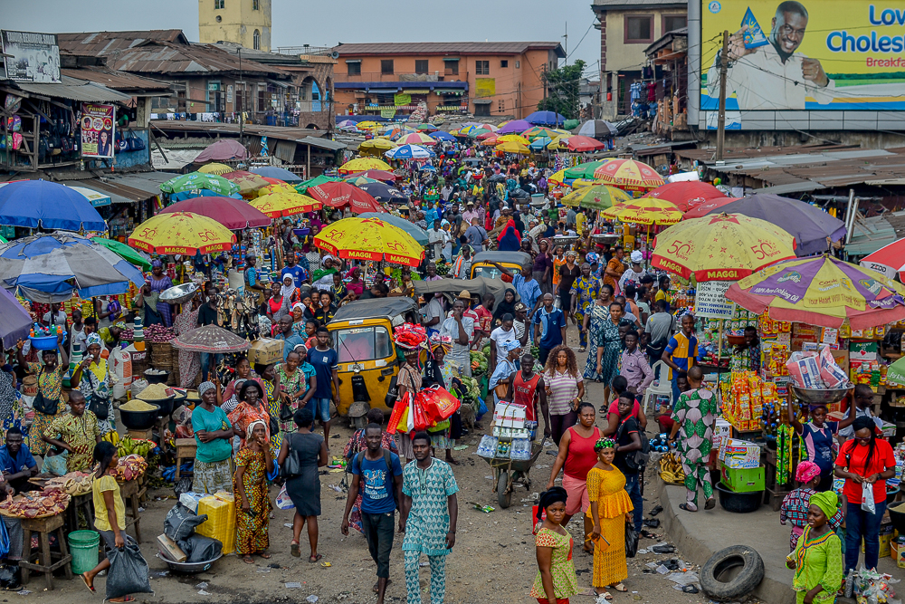 Market in Mushin